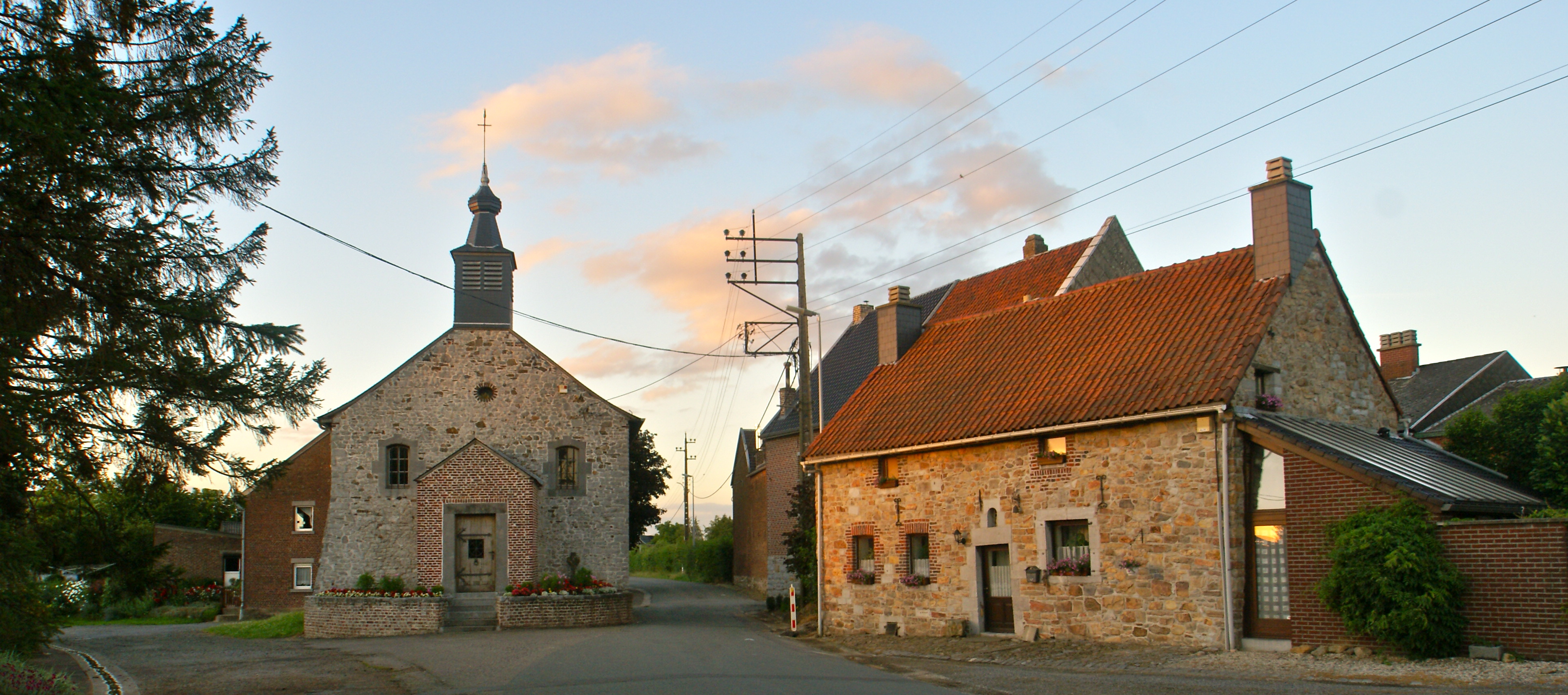 Dalhem (Belgium): Bombaye (Bolbeek), Sangville Chapel